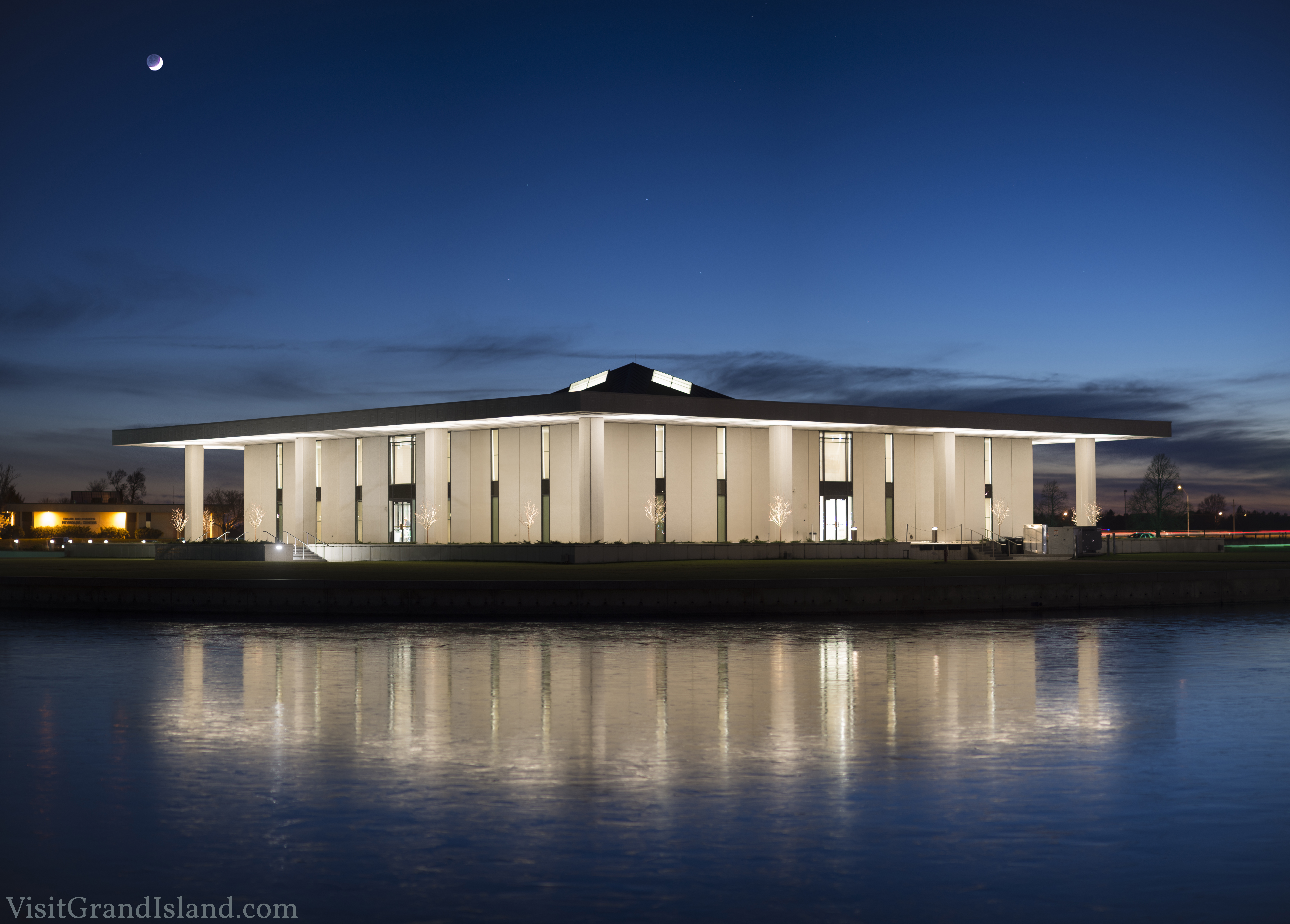 This is a photo of the Stuhr museum. It was constructed my Geer-Melkus Construction Company